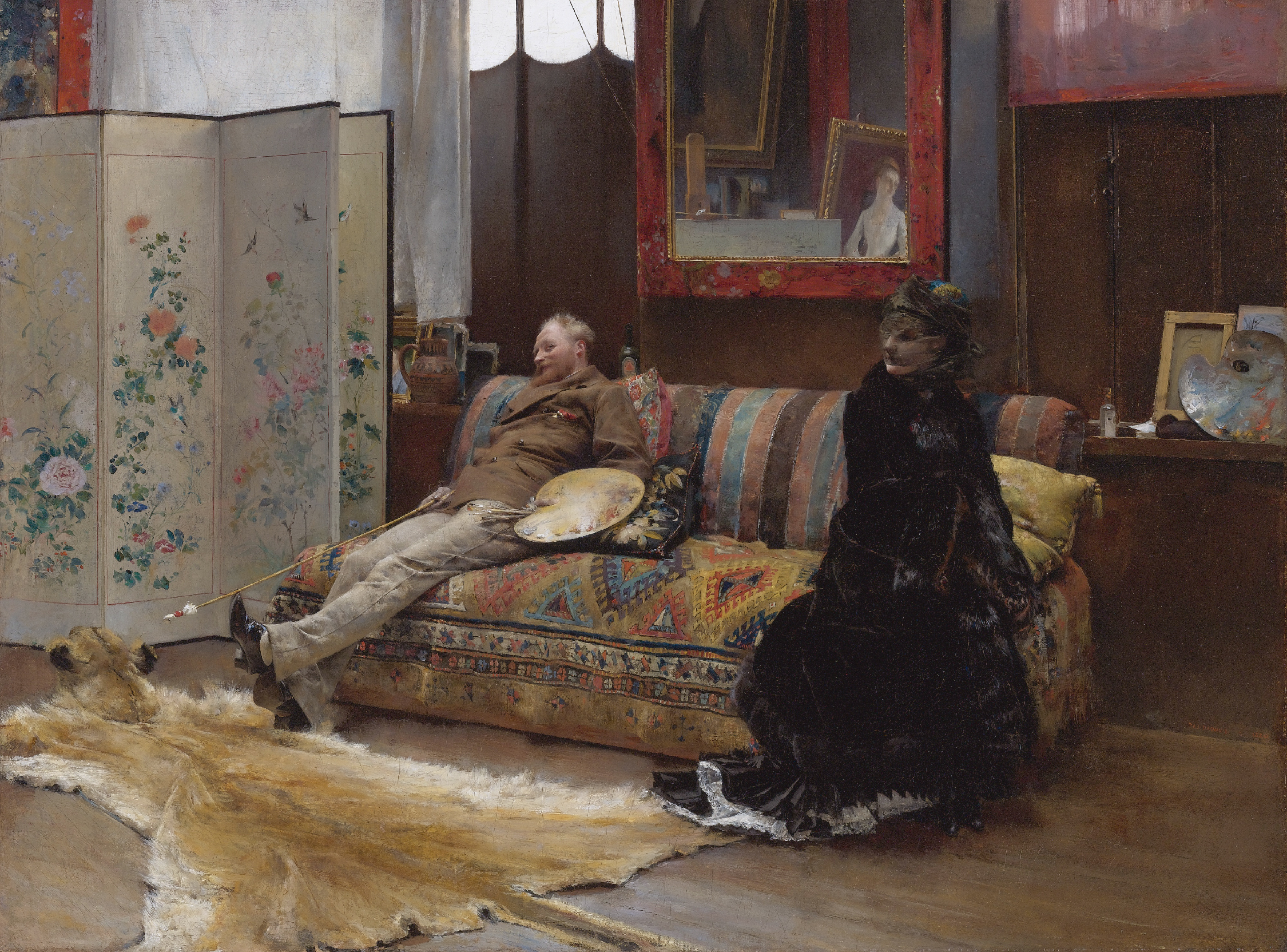 Sulking - Gustave Courtois in his studio